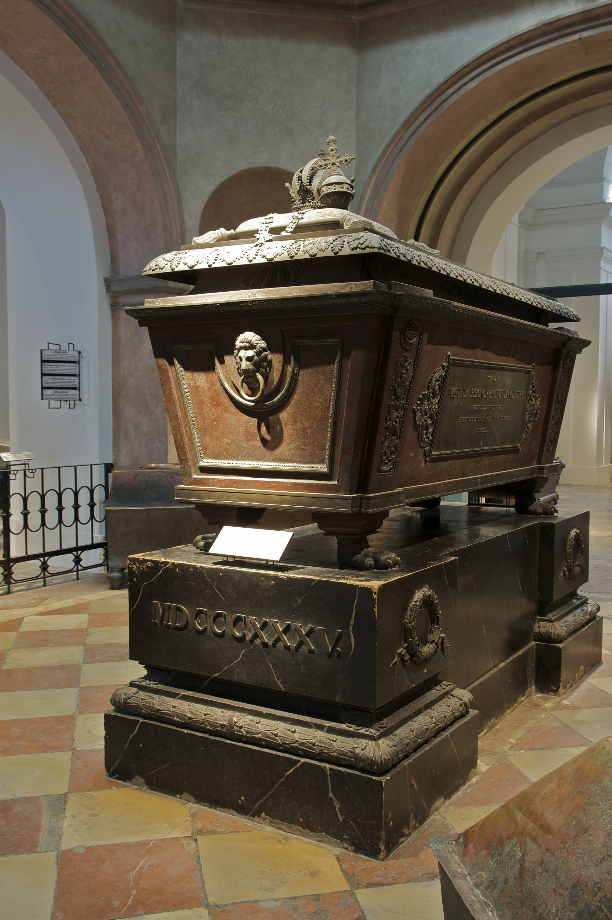 the sarcophagus of Francis II. (I.), last Holy Roman Emperor (Francis II), Emperor of Austria (Francis I.) (1768-1835).